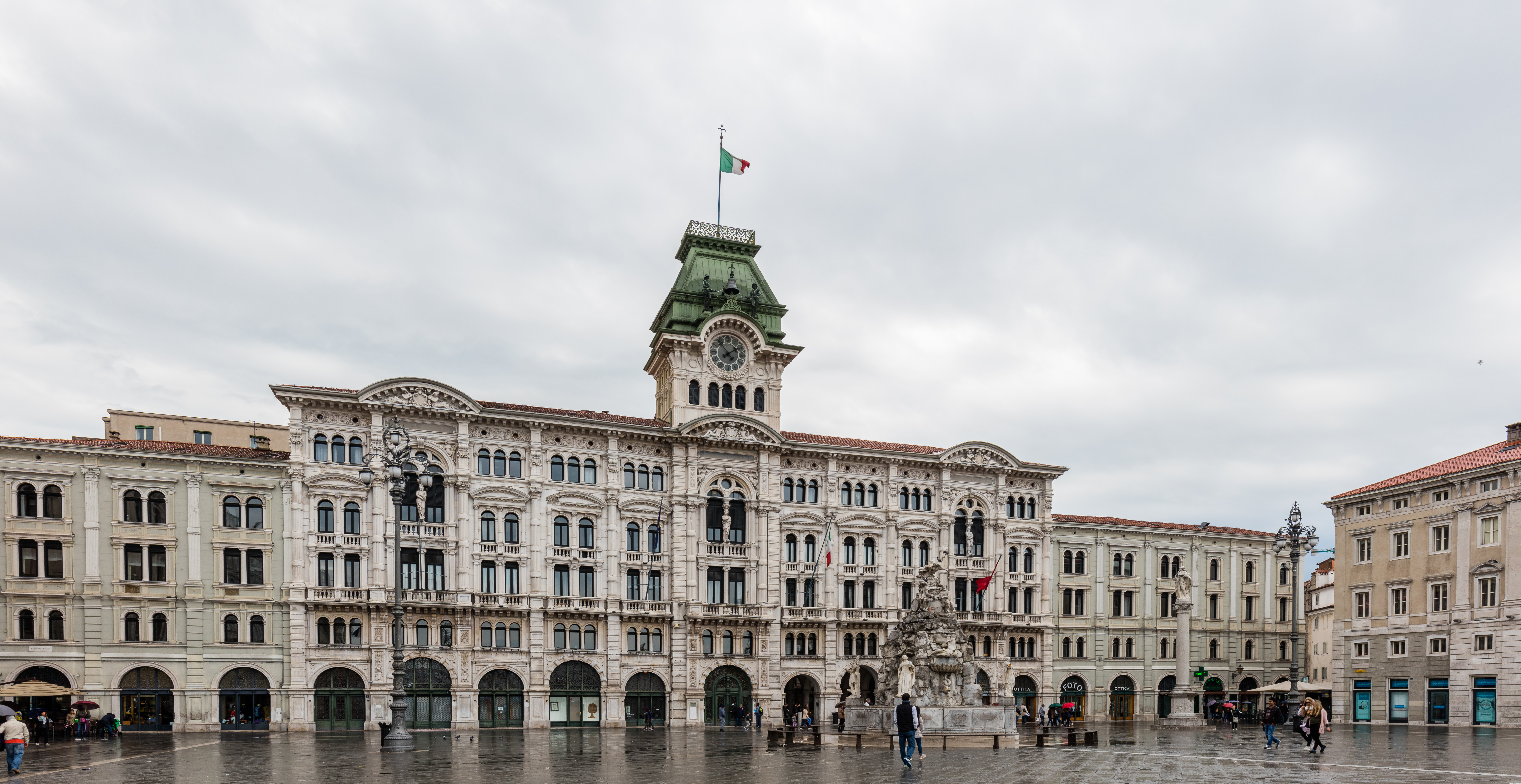 City hall, Trieste, Italy